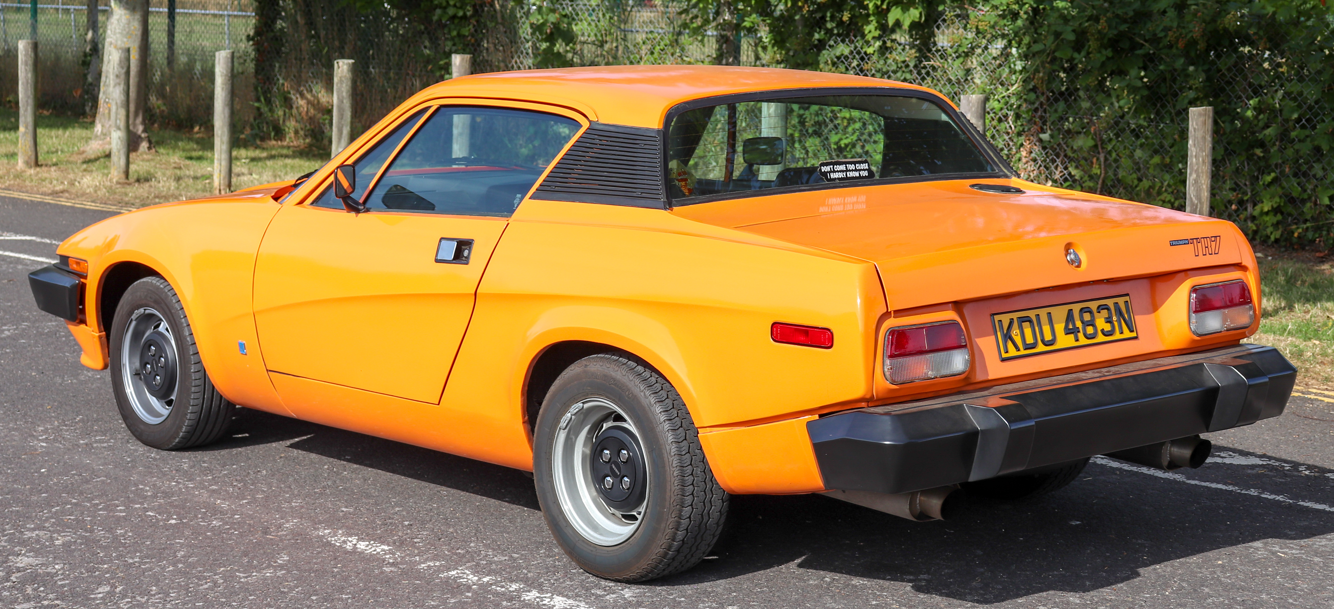 1975 Triumph TR7 3.5 Rear Taken in Weymouth, Dorset